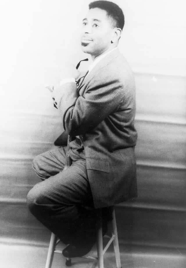 Portrait of Dizzy Gillespie (John Birks), 1955 Dec. 2. Full-length portrait, seated on stool, facing left, holding his glasses.